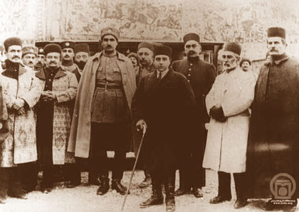 Ahmad Shah Qajar